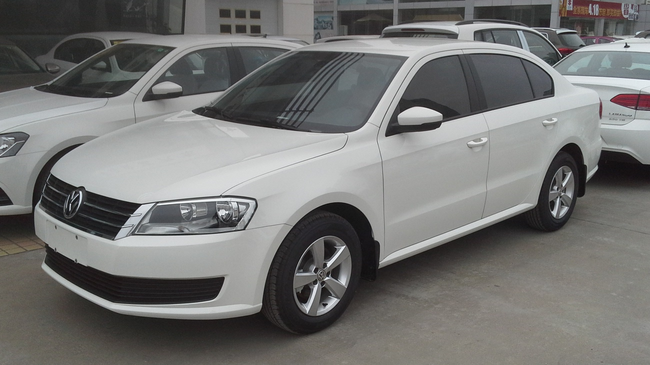 Volkswagen Lavida II photographed in Zhanjiang, Guangdong province, China.